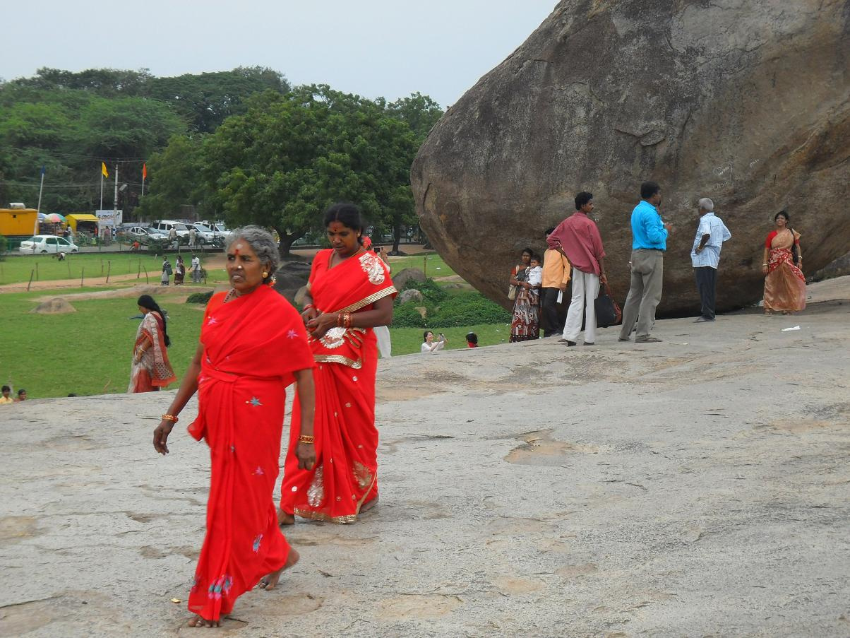 Women at Mamallapuram, Tamil Nadu, India